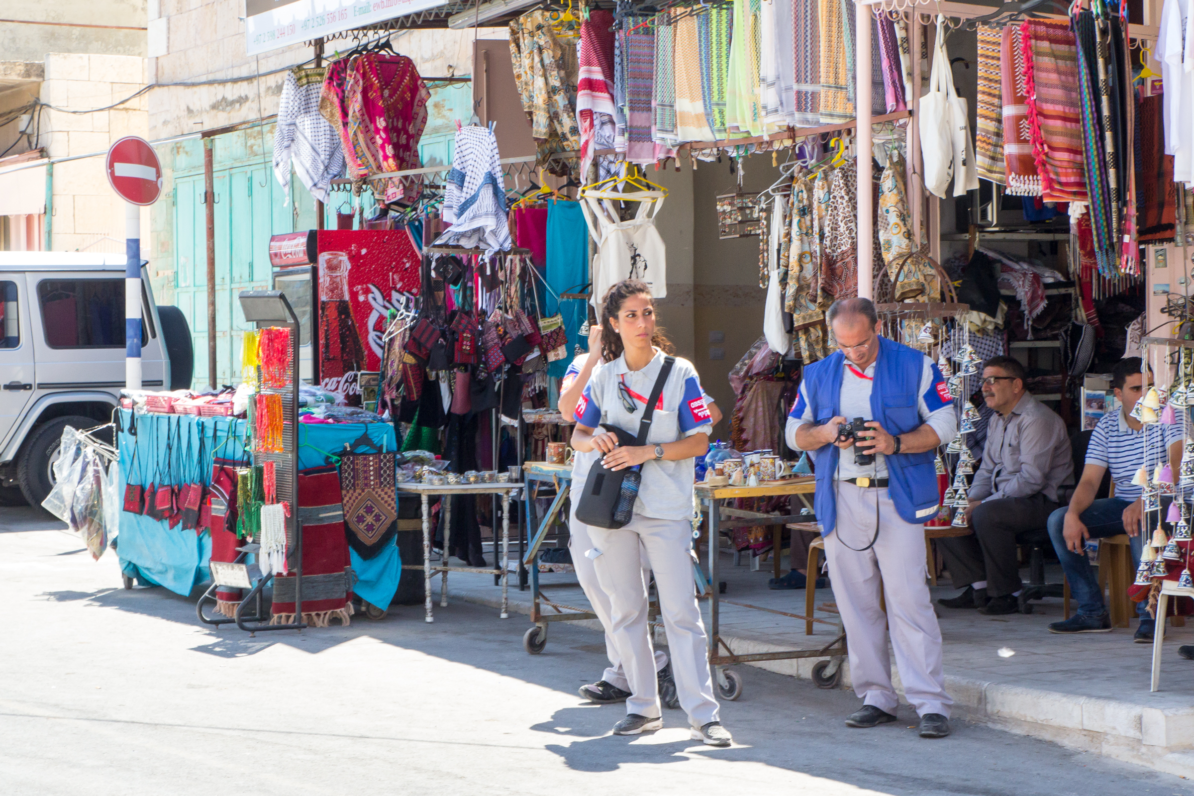 Breaking the Silence Hebron tour, August 28, 2015. Temporary International Presence in Hebron observers